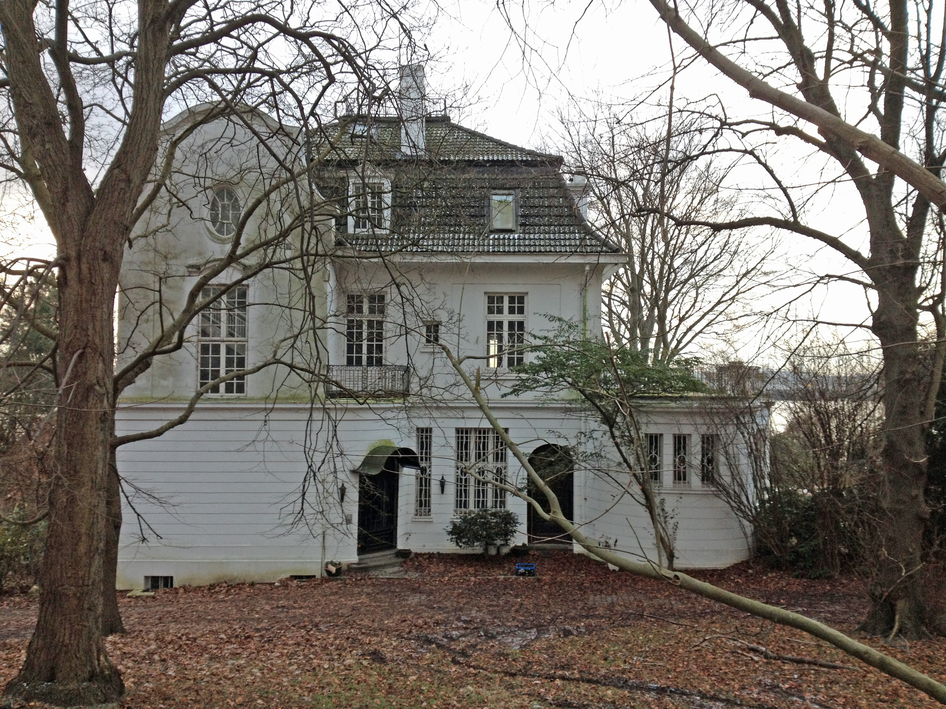 White house in Hamburg-Nienstedten